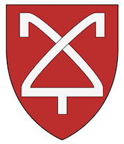 Sankovic arms